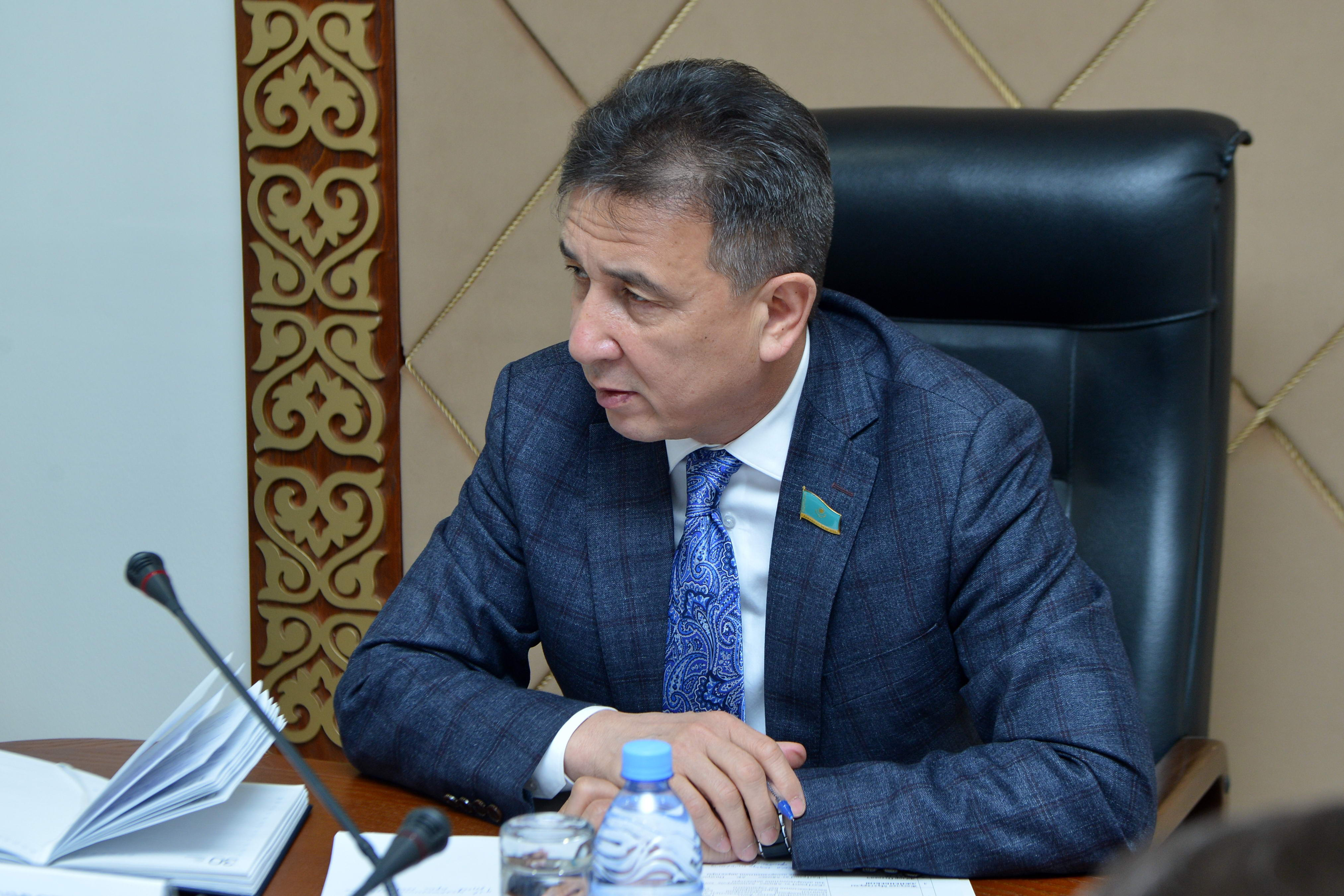 Sarsenbay Yensegenov